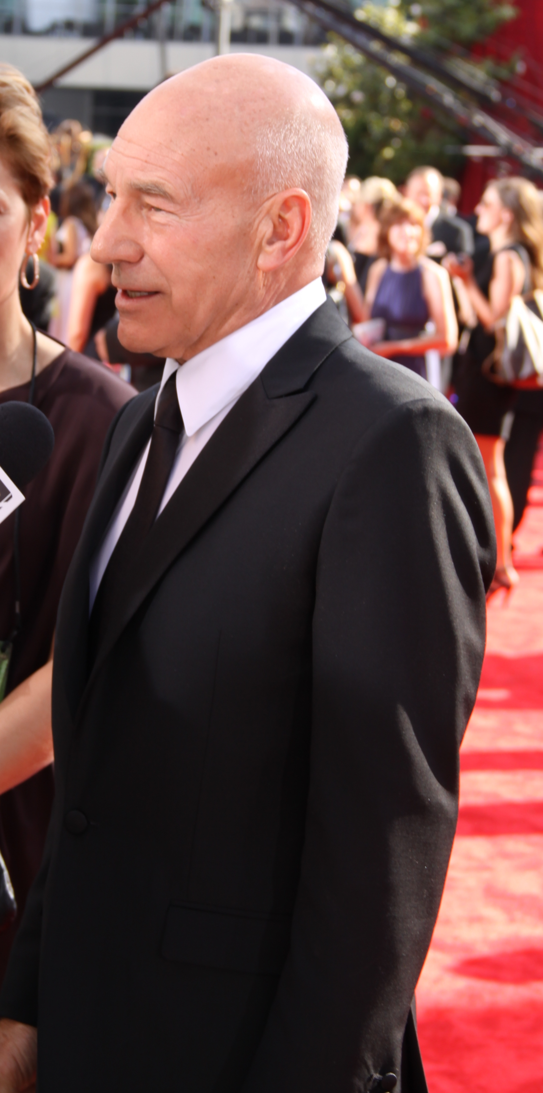 Sir Patrick Stewart at the 62nd Primetime Emmy Awards in 2010 .